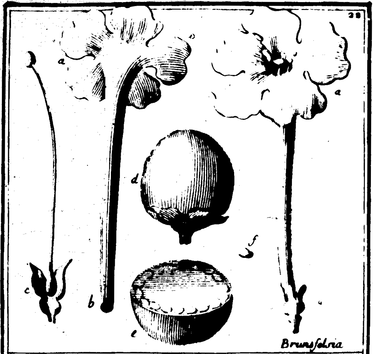 pre-Linnean illustration of Brunfelsia (species today known as Brunfelsia americana).